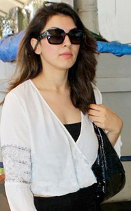 Hansika Motwani snapped at the domestic airport